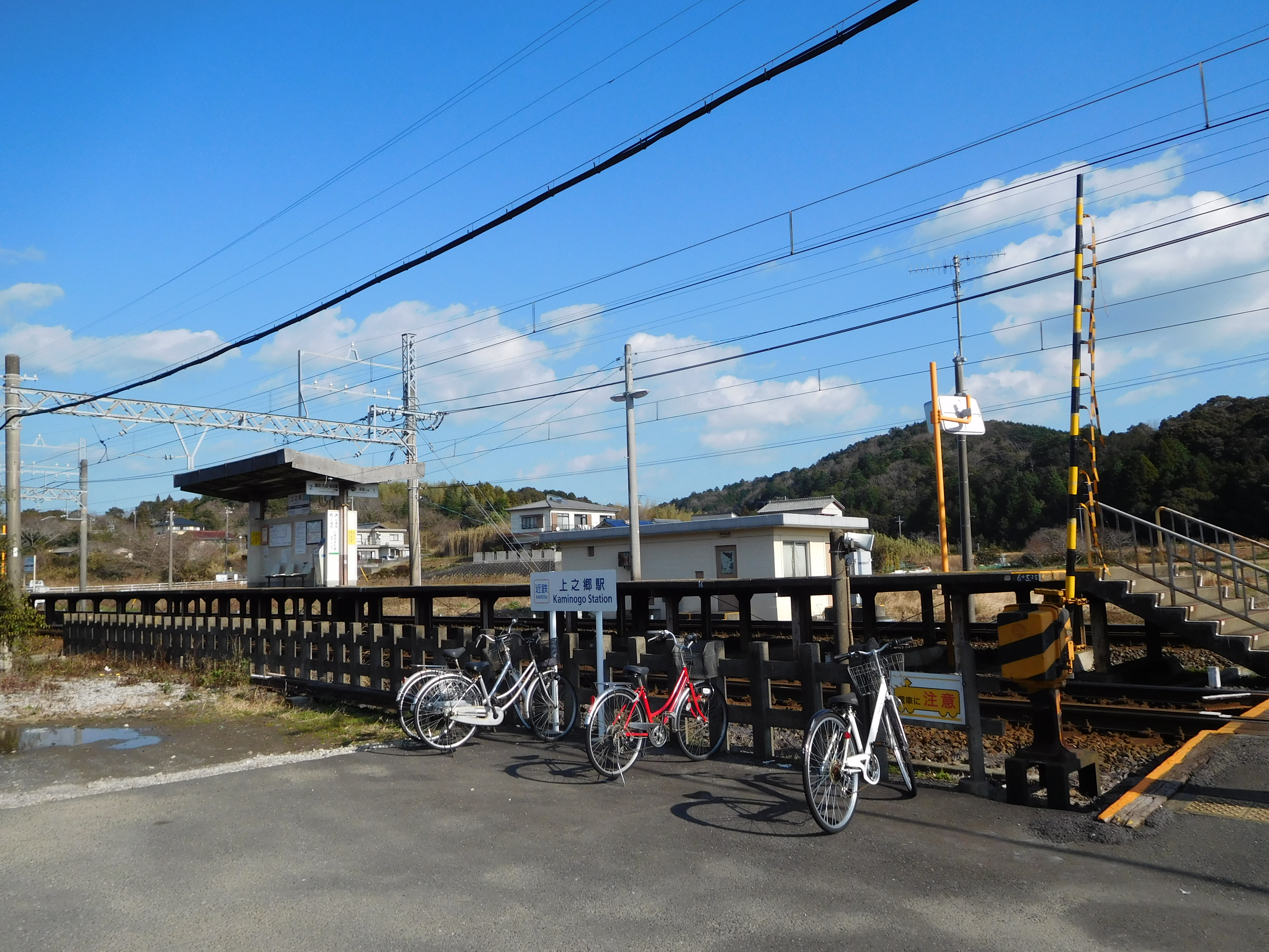 This is the Kintetsu Kaminogo station, which is located in Shima, Mie, Japan.